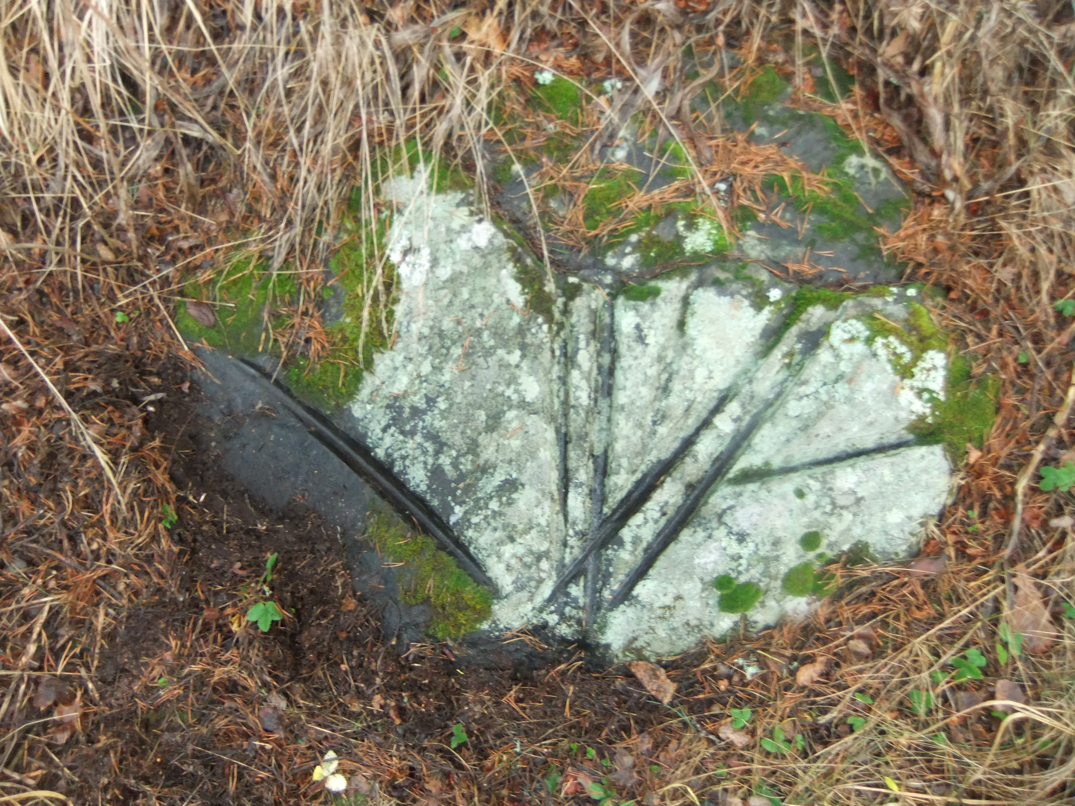 The Vanhakartano (Gammelgård) Groove Stone at Lake Ormajärvi, Lammi, Hämeenlinna, Finland. An Iron Age heritage site.